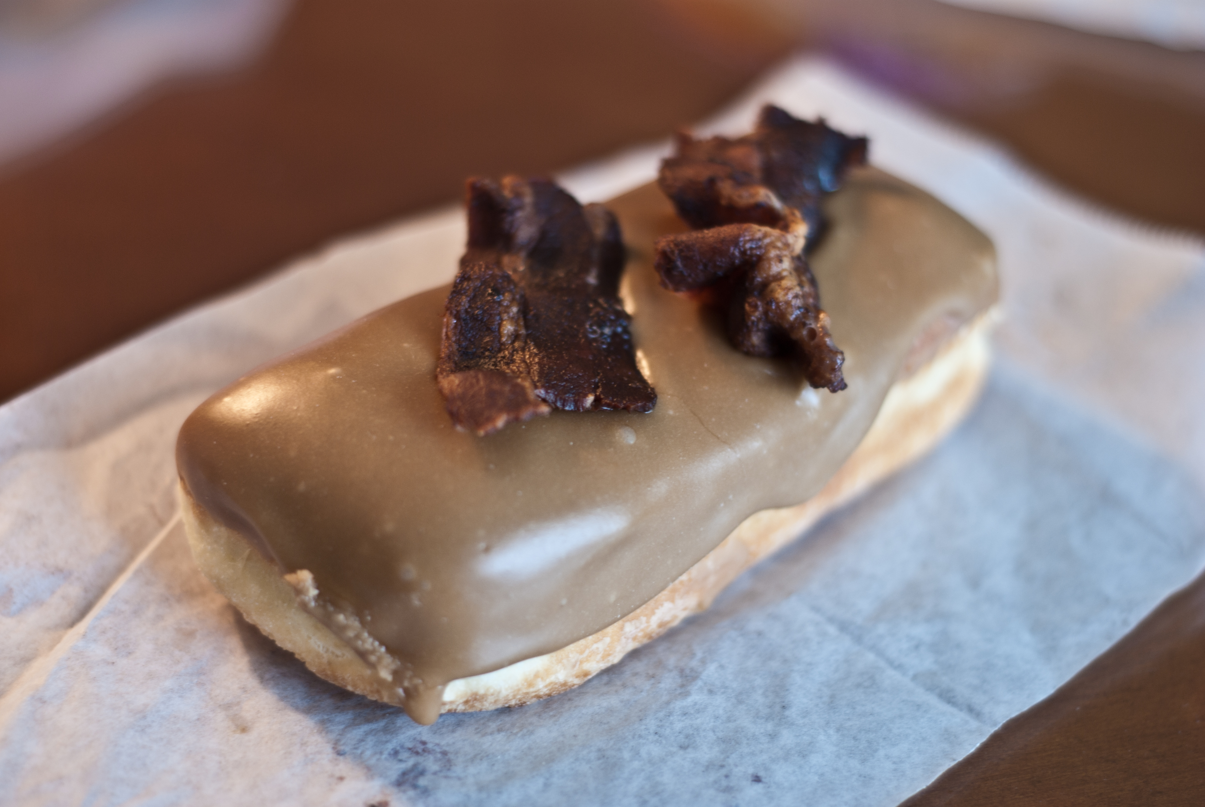 A bacon maple bar from Voodoo Doughnut in Portland, Oregon.